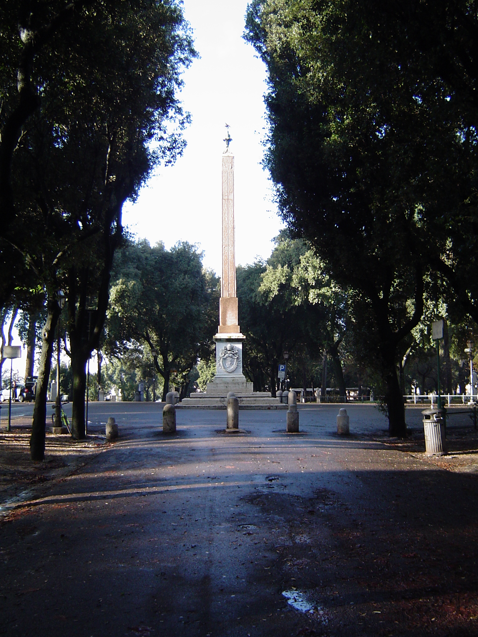 The obelisk in the Pincio Gardens, Rome, Italy Made by Joris on 03-01-2006.